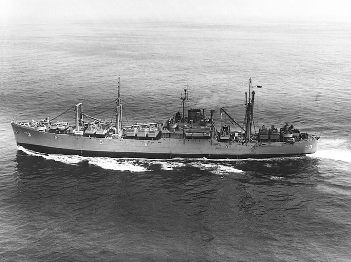 The U.S. Navy attack cargo ship USS Bellatrix (AKA-3) underway in the 1950s. Bellatrix was recommissioned between 16 May 1952 and 3 June 1955.